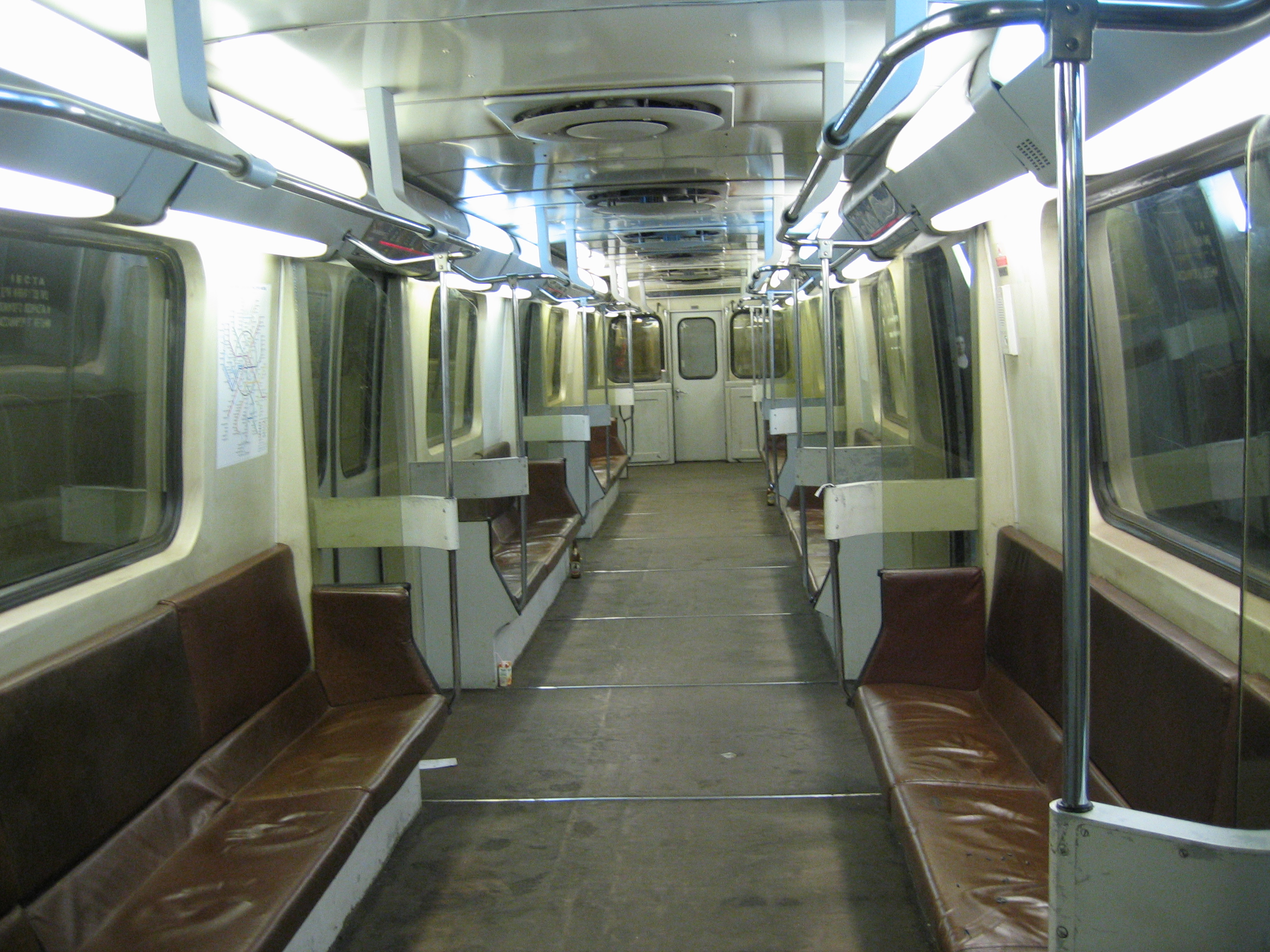 Train 81-720/721, view inside